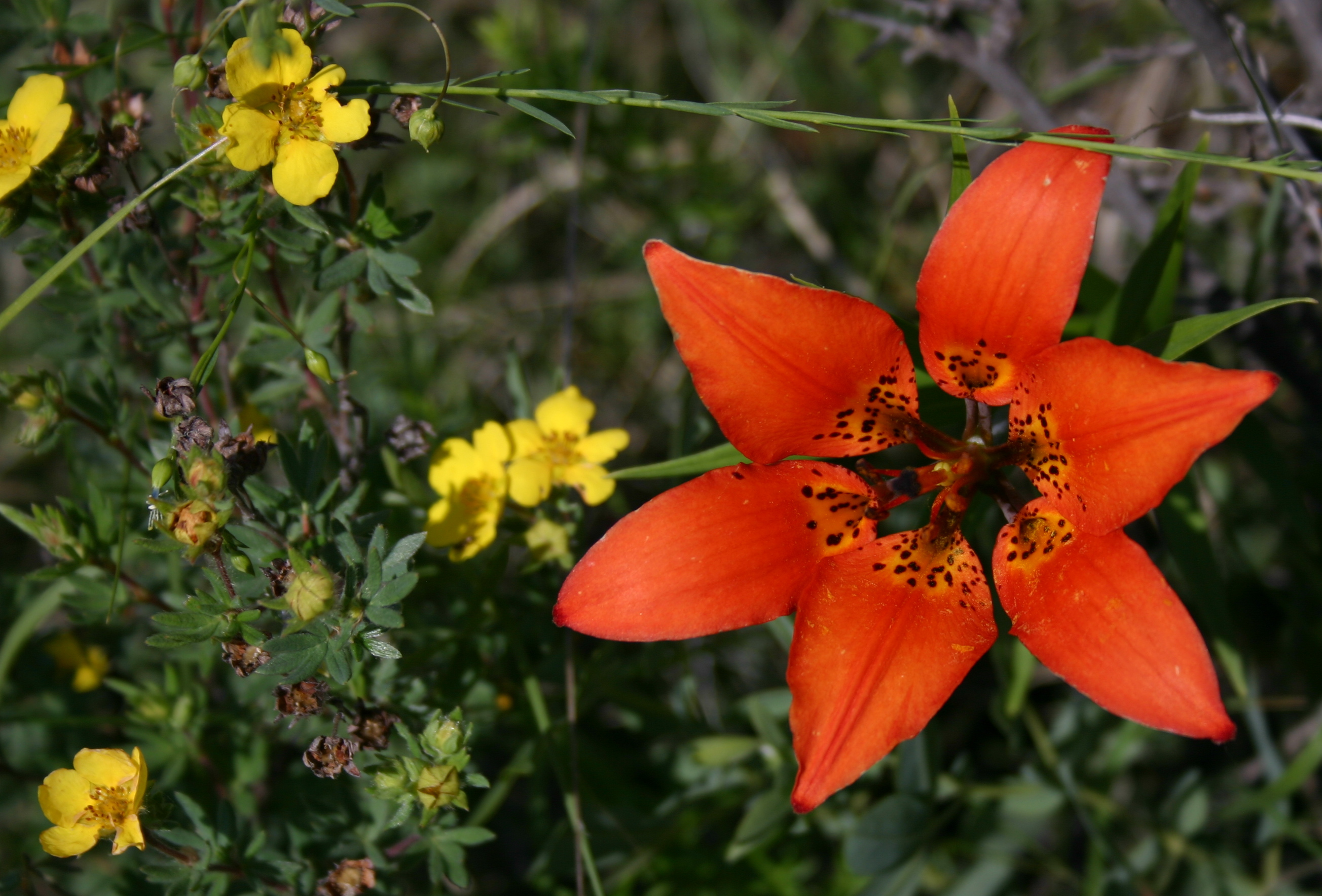 Wildflower (Western Red Lily. Lilium philadelphicum) at Dry Island Buffalo Jump Provincial Park